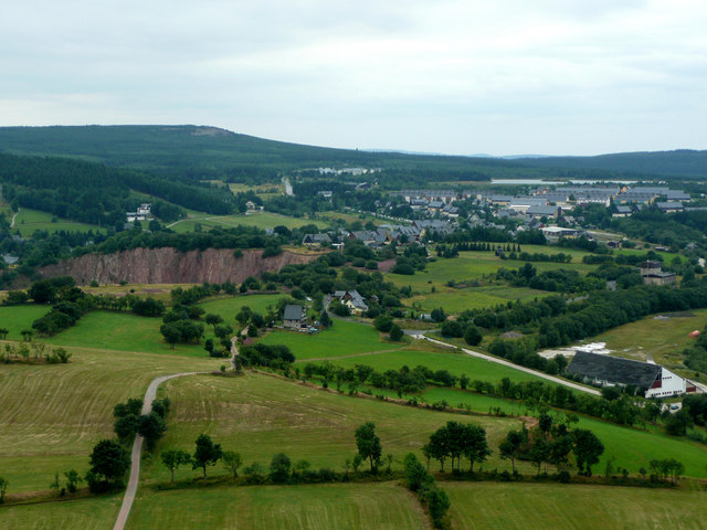 This image shows Altenberg in the Ore Mountains.